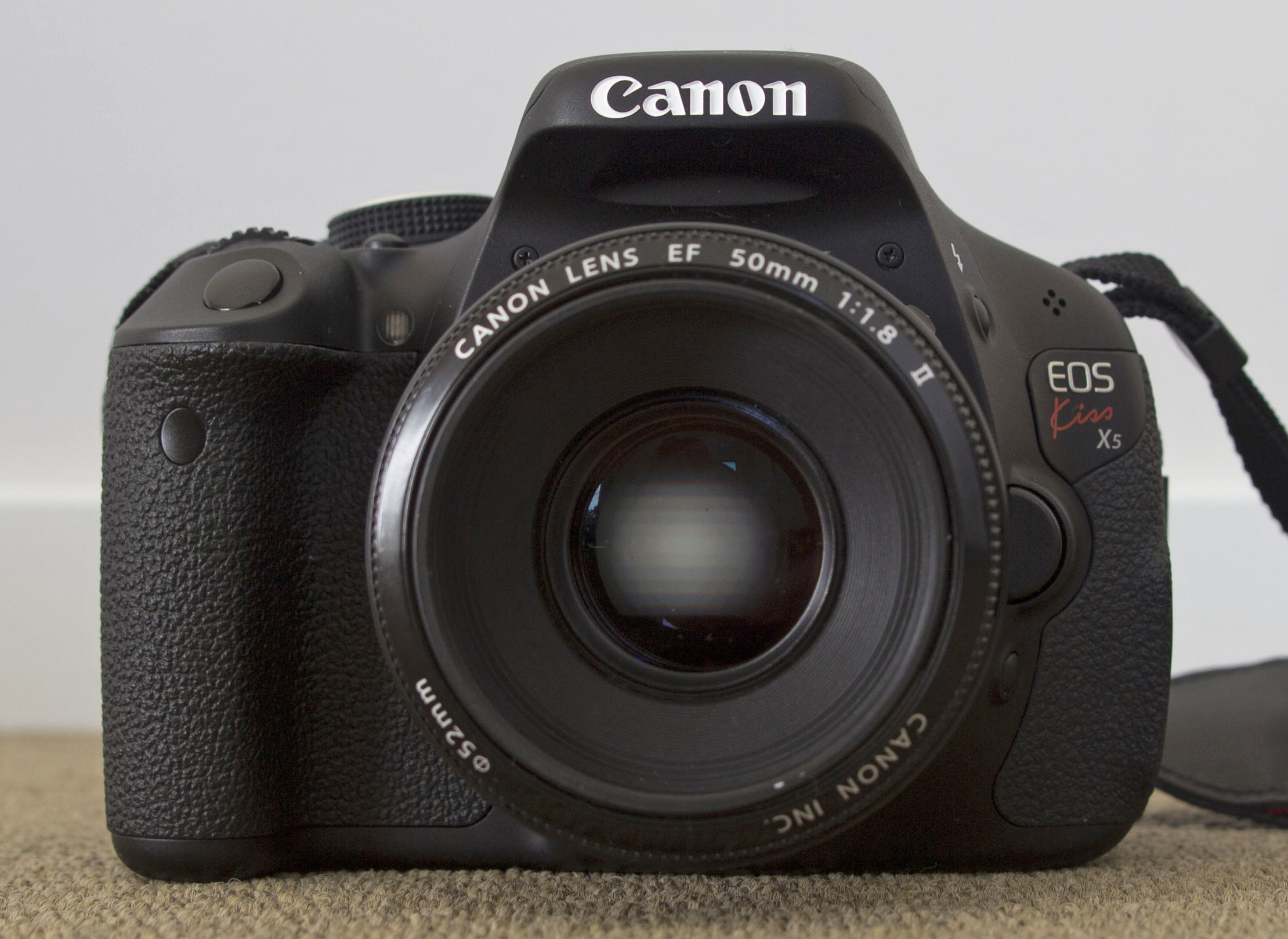 Front view of the Canon EOS 600D with the Canon EF 50mm F1.8 lens attached.